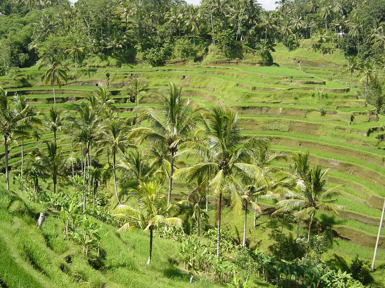 Rice Terraces on the Indonesian island of Bali.